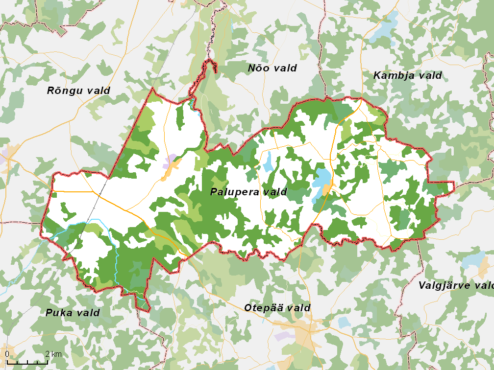 Map of municipality in Estonia